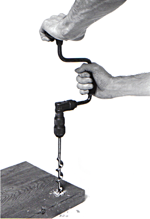 b/w photograph of an auger.